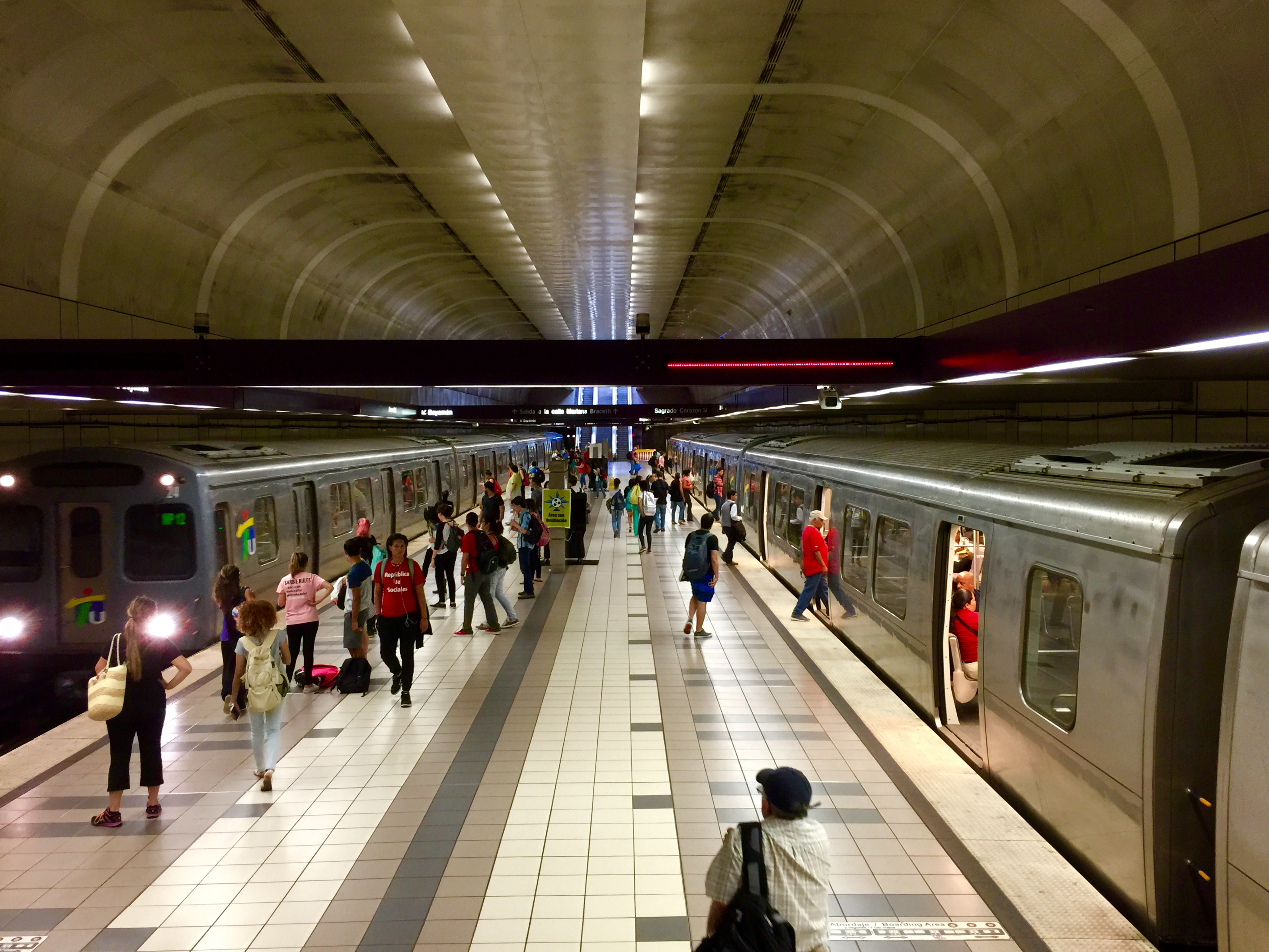 Underground University Station of the Tren Urbano in San Juan